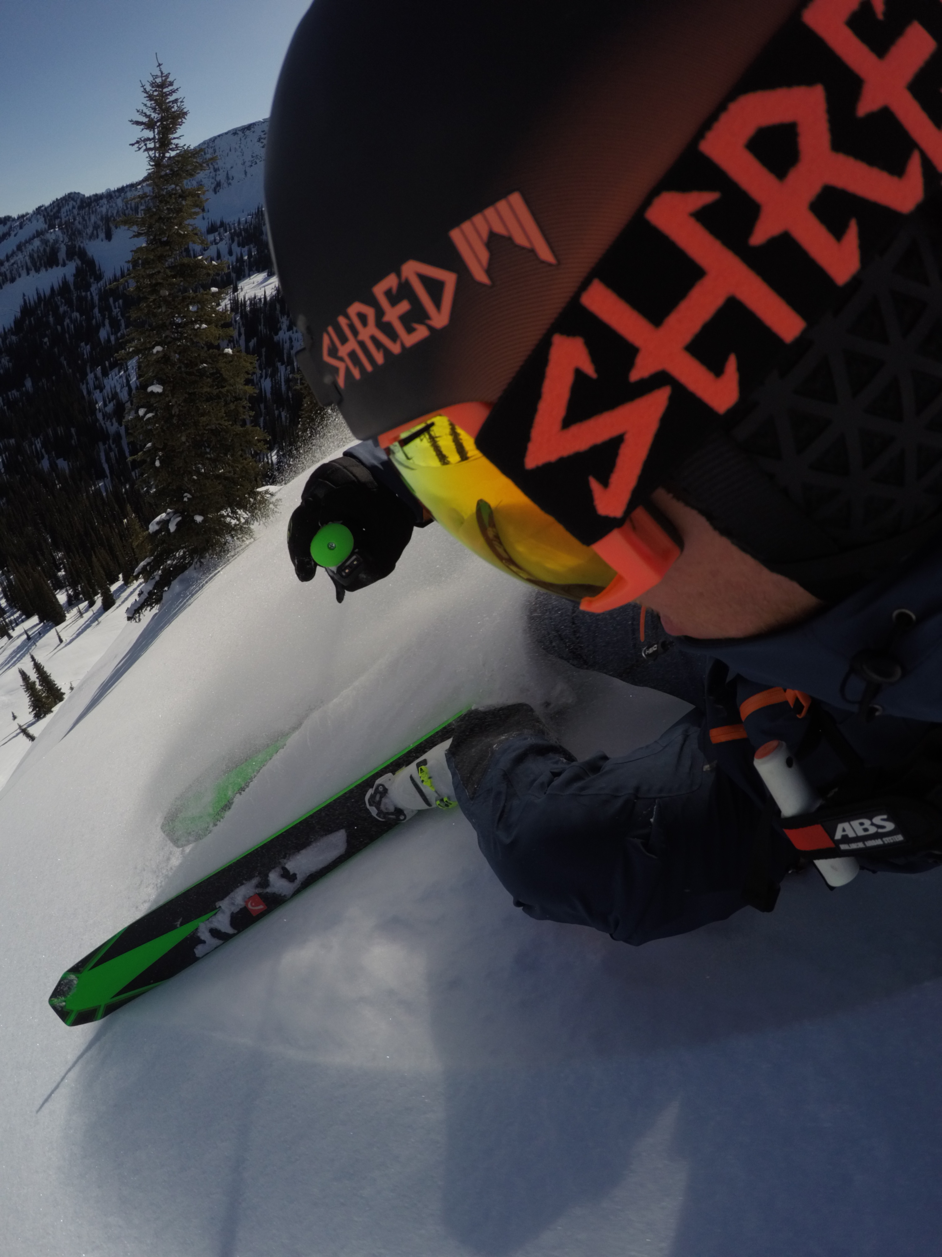 Shred CoFounder Ted Ligety product testing on a powder day.